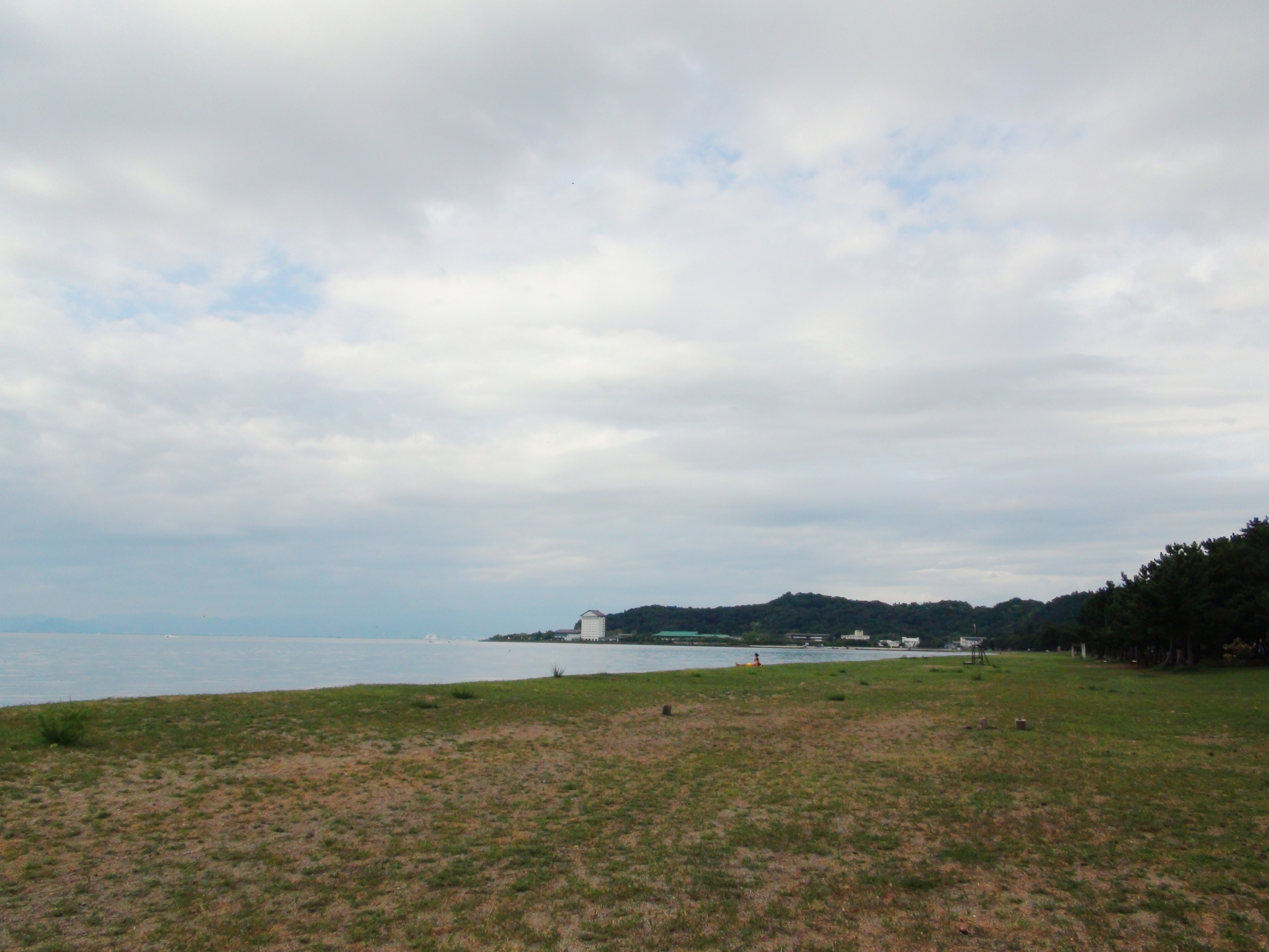 Matsubara swimming beach Hikone